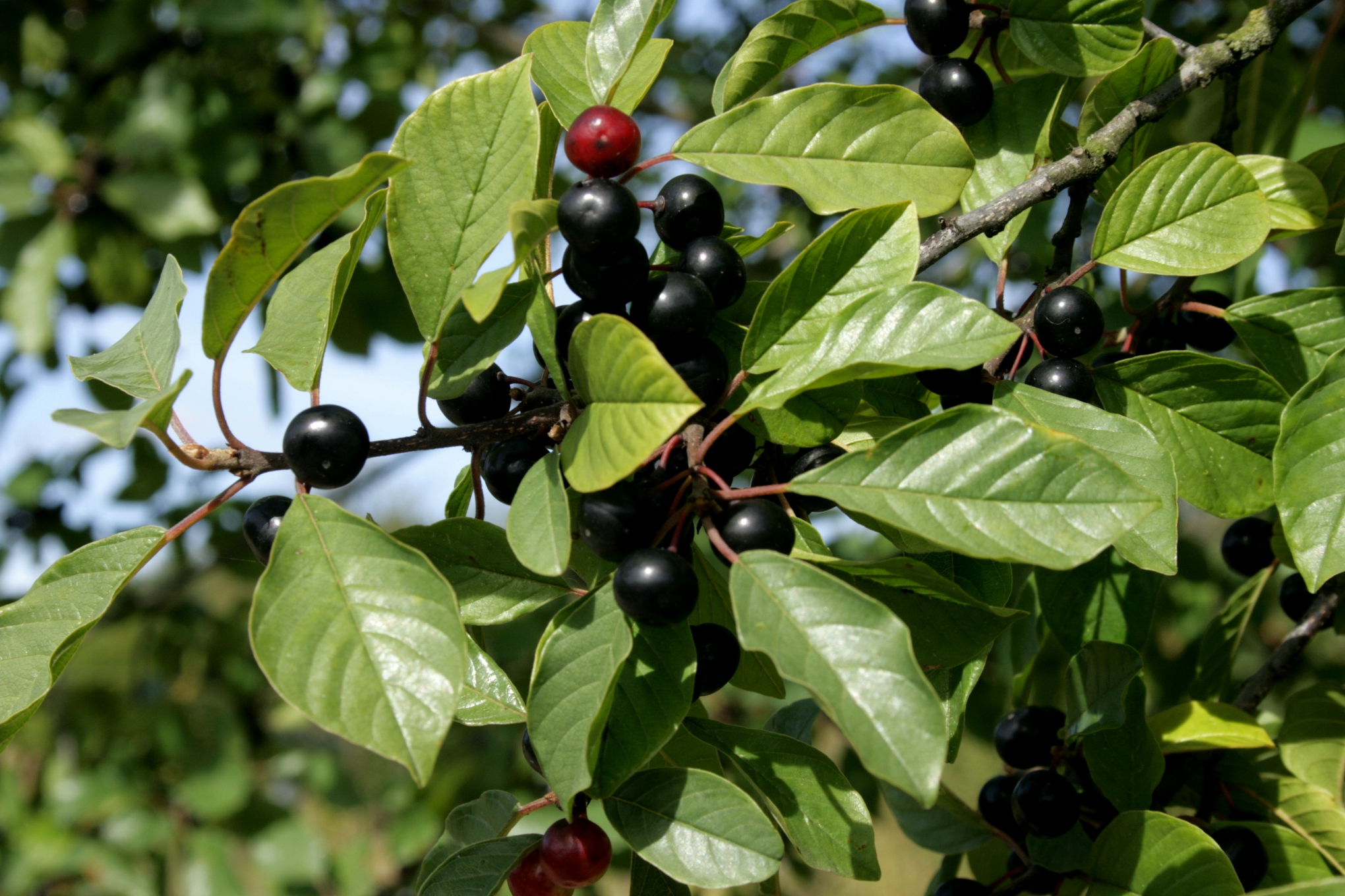 Frangula alnus: Berries